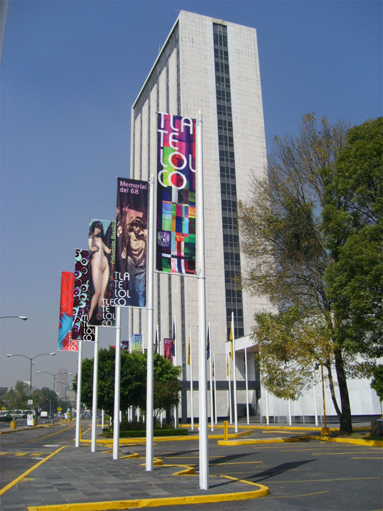 Entrada Principal